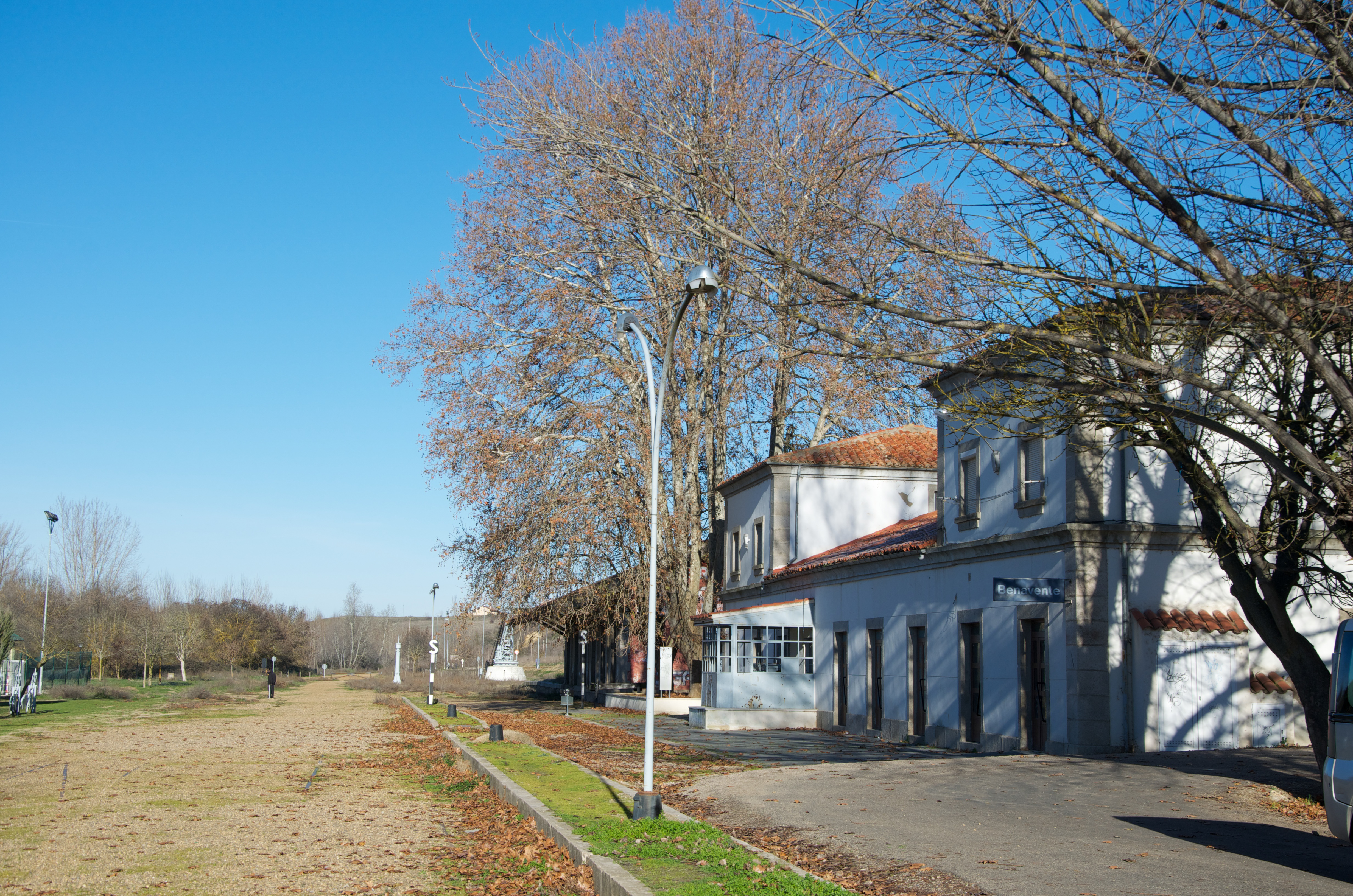 Benavente train station, on the former Plasencia-Astorga railway line.